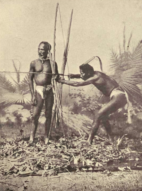 Negrito warriors, Philippines (1899)